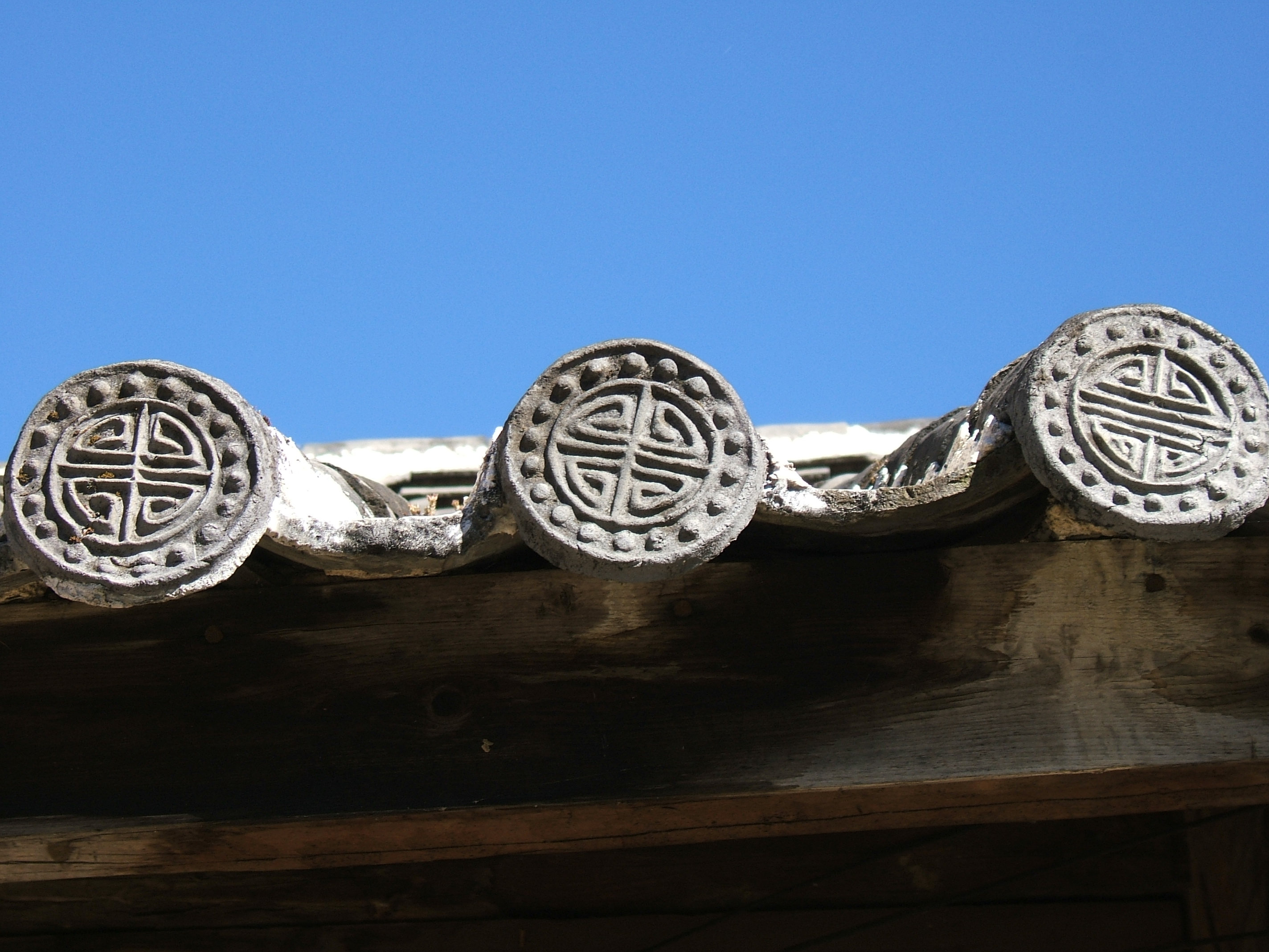 Clay roof tile gutter pieces feature the Chinese character for longevity (shou).